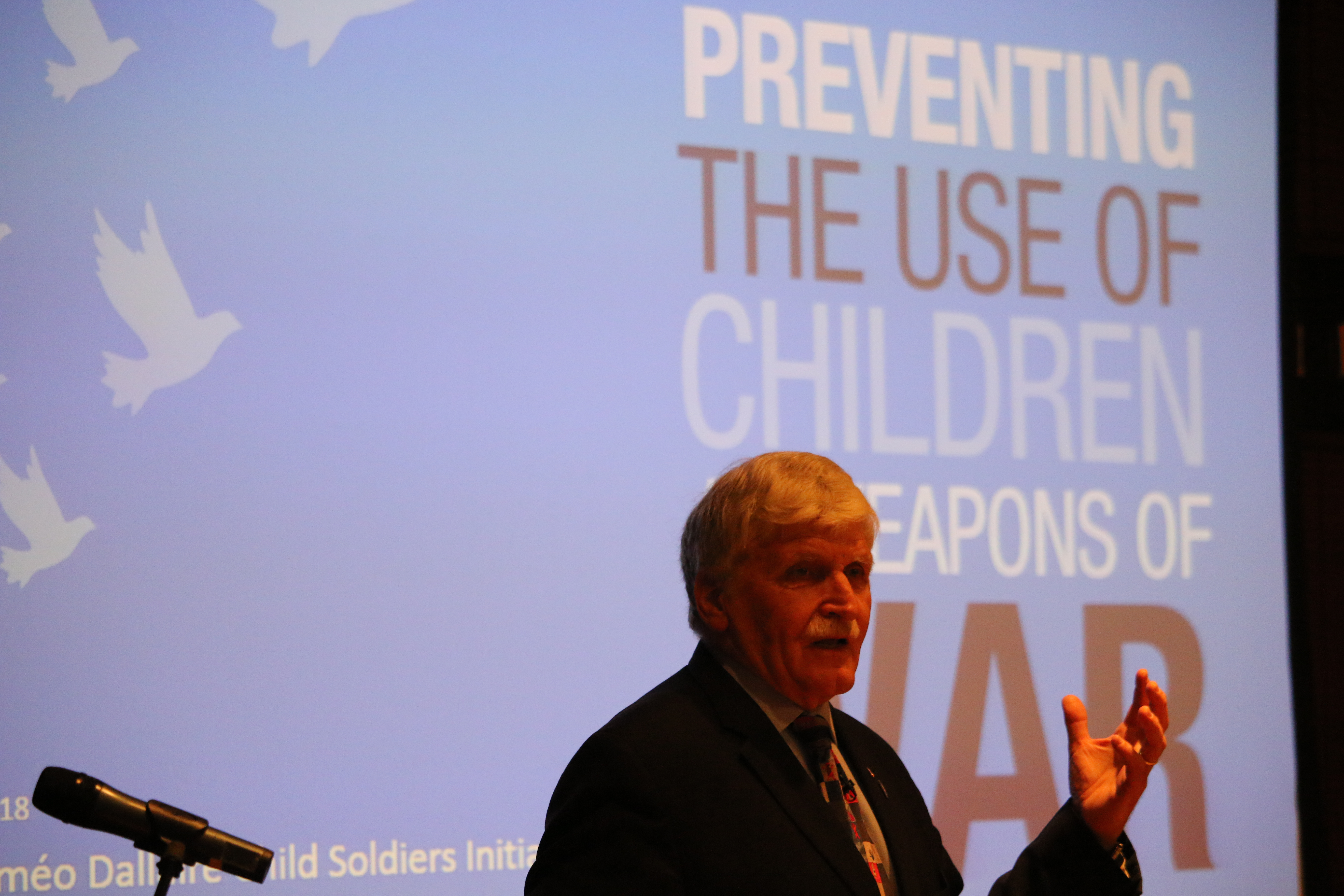 Speaking at the Kansas City Public Library in 2018 at the request of the United Nations Association of Greater Kansas City, former UN Commander and Canadian Senator Roméo Dallaire talks about his experiences with child soldiers on behalf of the Roméo Dallaire Child Soldiers Initiative.